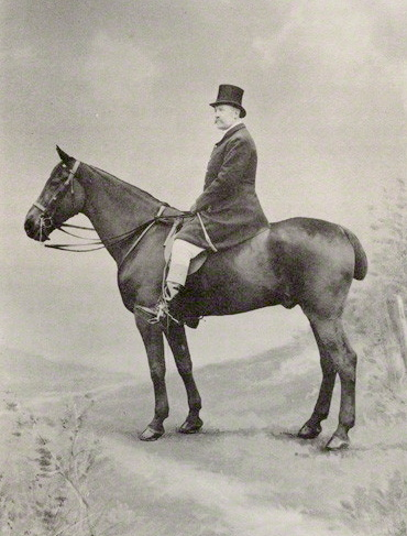 Photography of Henry Somerset, 9th Duke of Beaufort